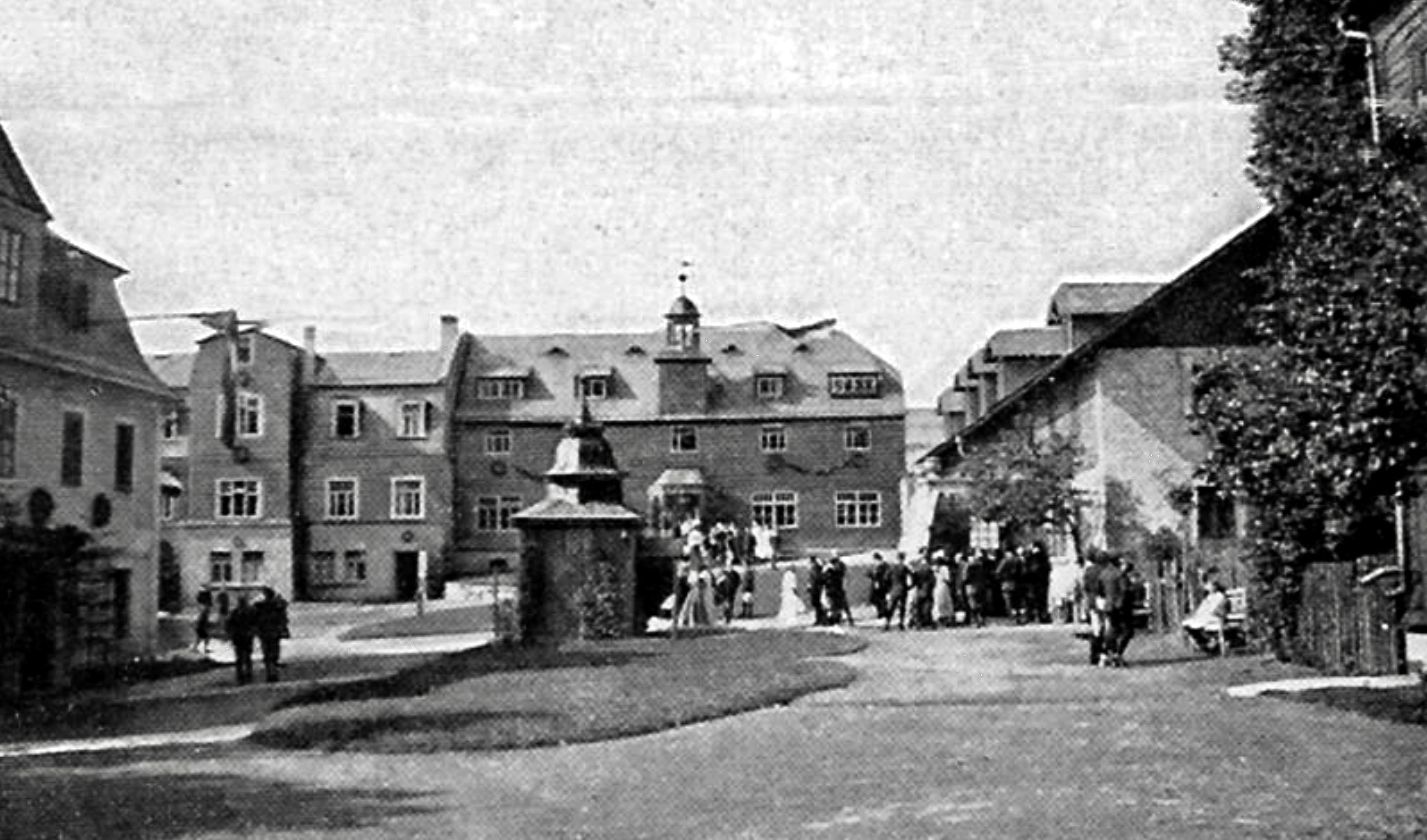 Compound of Freie Schulgemeinde in Wickersdorf near Saalfeld in the Thuringian Forest in 1907. The progressive boarding school was founded in 1906 by a group of pedagogic rebels, formed by Rudolf Aeschlimann (1884–1961), Paul Geheeb (1870–1961), August Halm (1869–1929), Martin Luserke (1880–1968), and Gustav Wyneken (1875–1964).